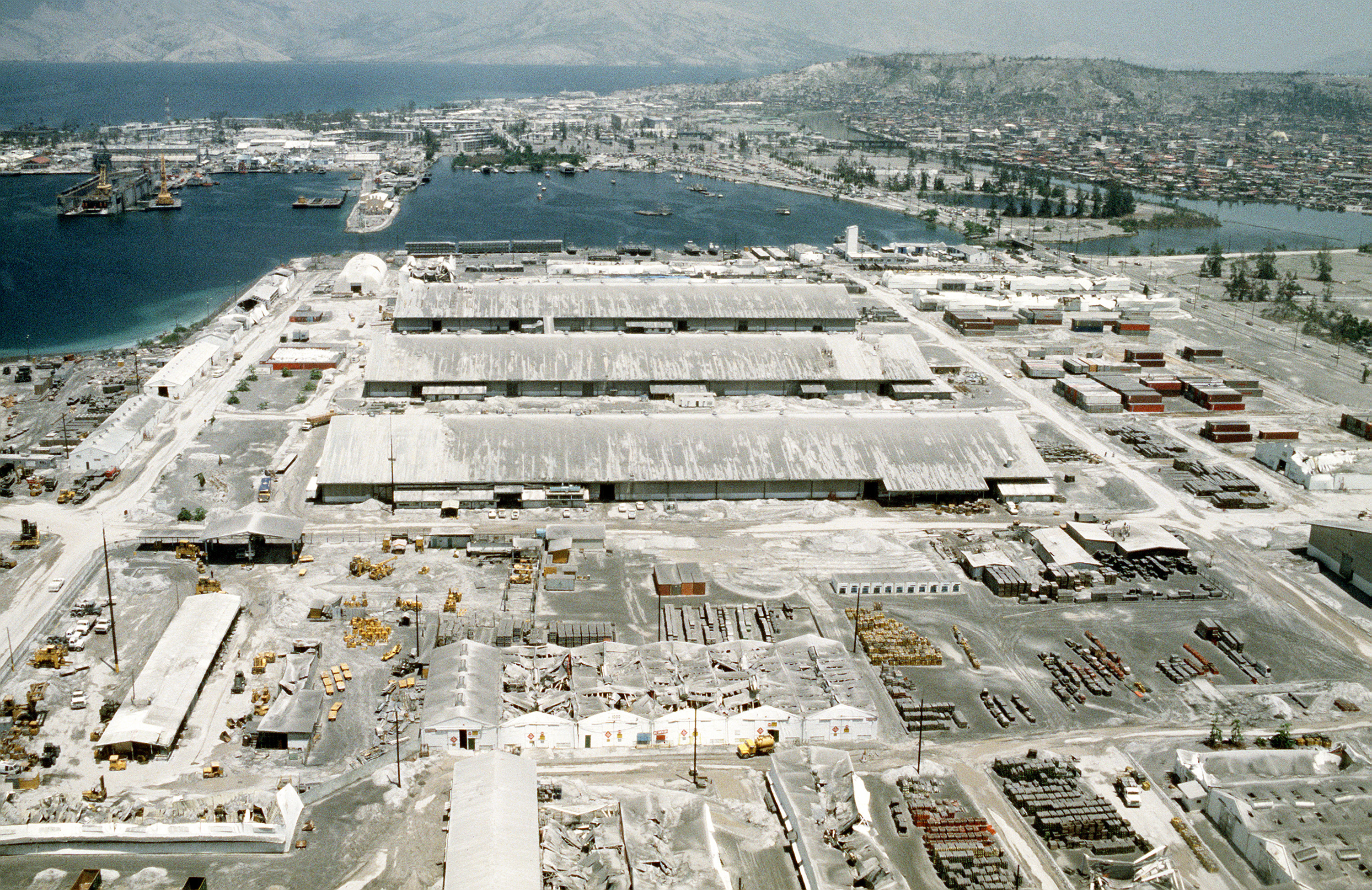 Ash covers the naval station following the eruption of Mount Pinatubo, a volcano which came to life in June 1991 for the first time in over 600 years.Location: NAVAL STATION, SUBIC BAY, LUZON PHILIPPINES (PHL)